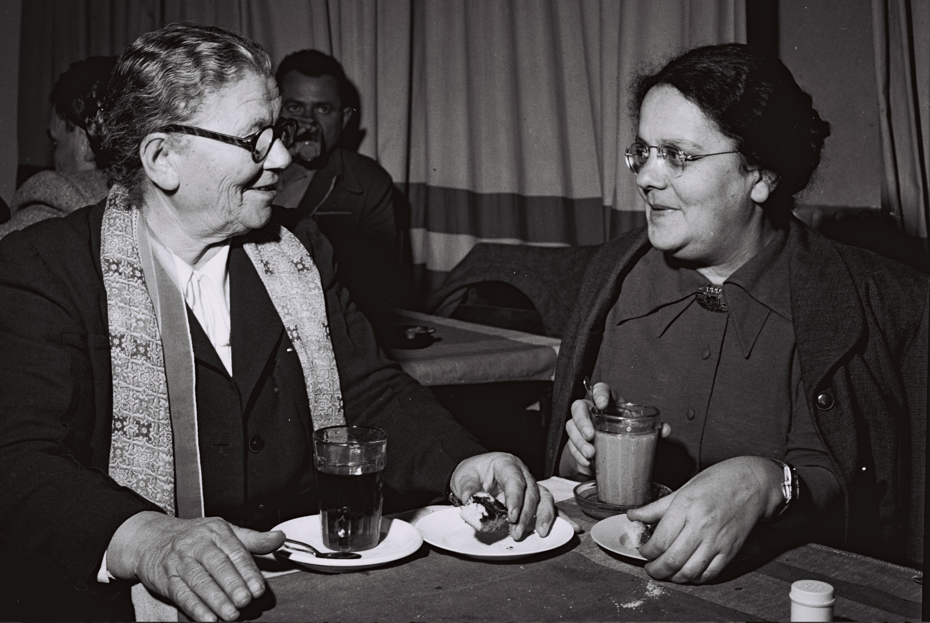 Mks Beba Idelson and Ada Maimon in the Knesset restaurant. Depicted people: Beba Idelson and Ada Maimon